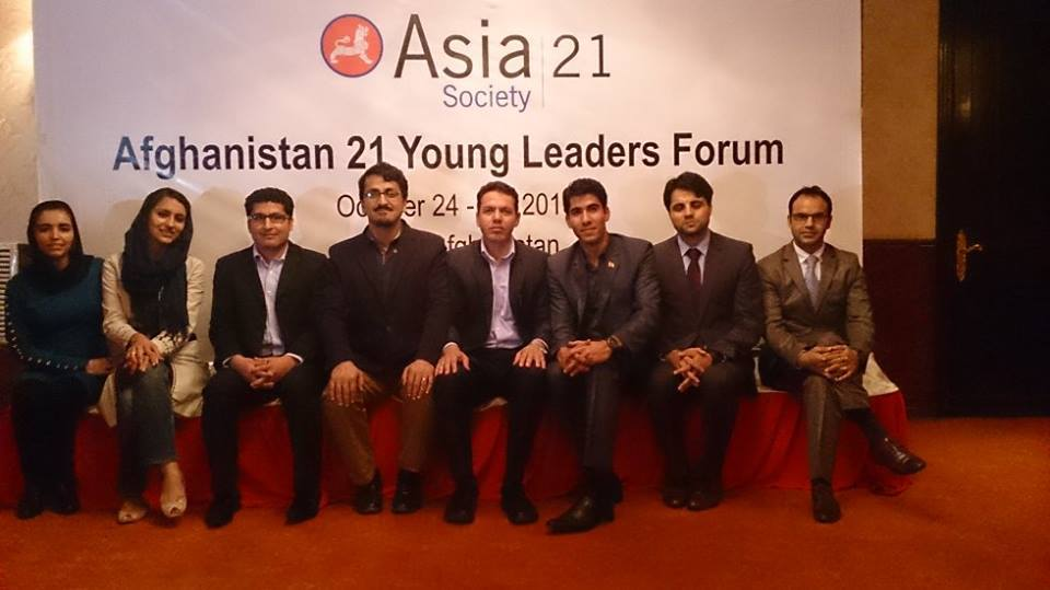 Mohammad Shafiq Hamdam among Asia 21 Young Leaders